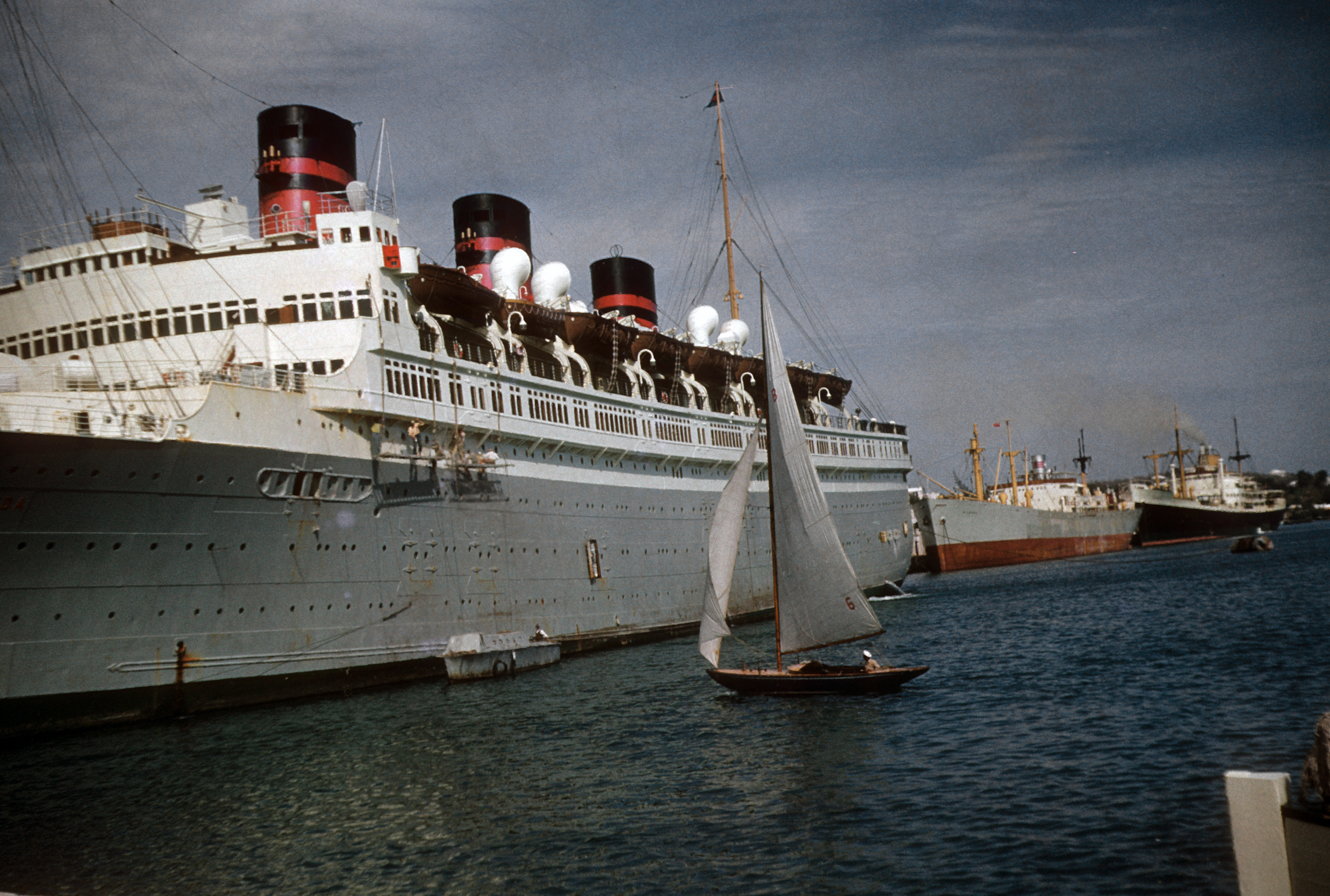 The S.S. Queen of Bermuda in Bermuda harbour, late 1952 or very early 1953 from a slide photo that was developed in January 1953 so could not have been later, or very much earlier as Dad took lots of slides and got film developed every few weeks and was in Bermuda from 1952-1954 the exact date mentioned below 31 Dec 1952 is only a guess but cannot be far off